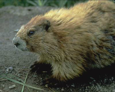 An Olympic marmot (Marmota olympus) in Olympic National Park. Original image has been flipped.